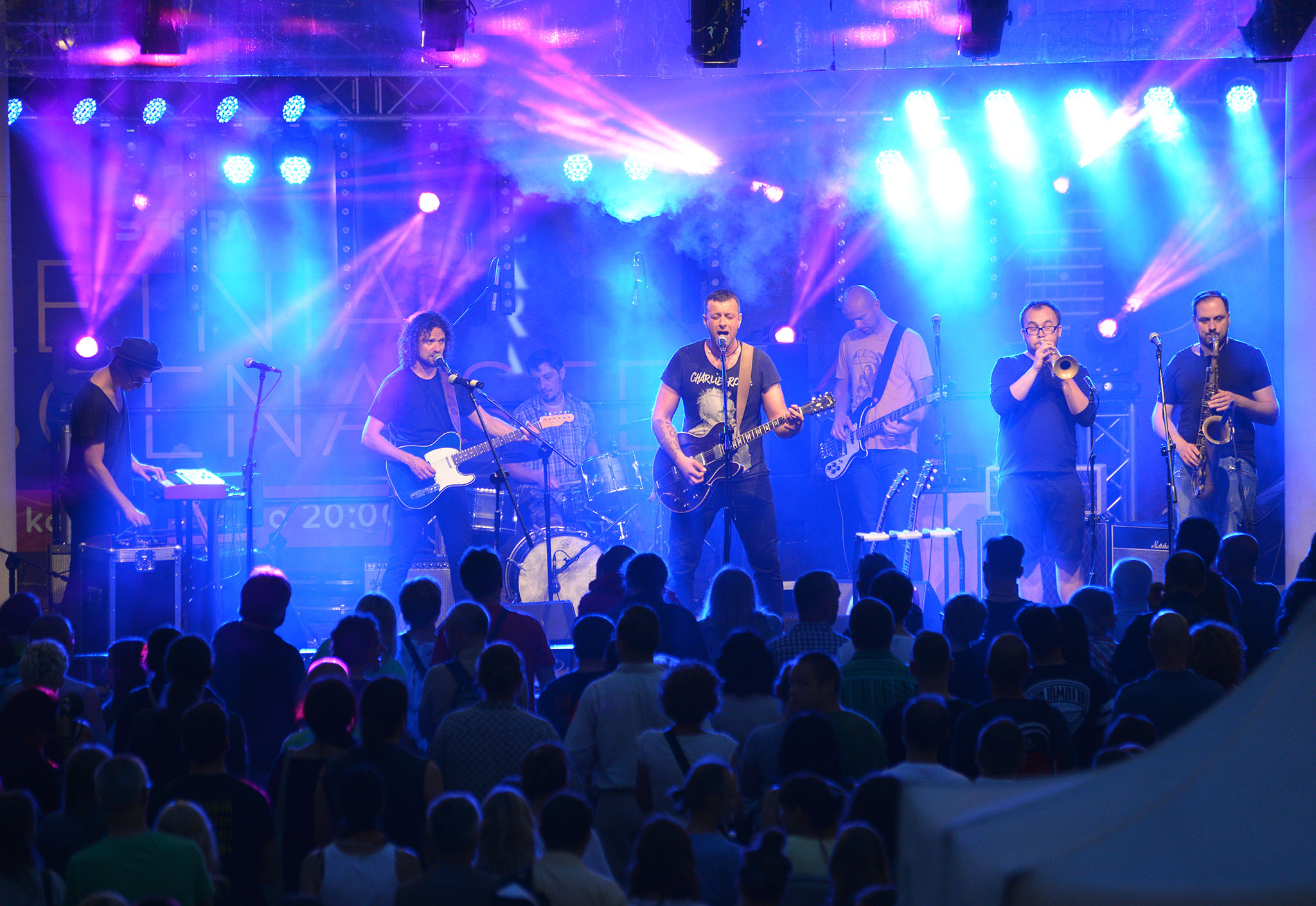 Tymon & The Transistors.Rock bando of Tymona Tymański, alternative rock. Concert photography, Bielsko-Biała, Poland 2015